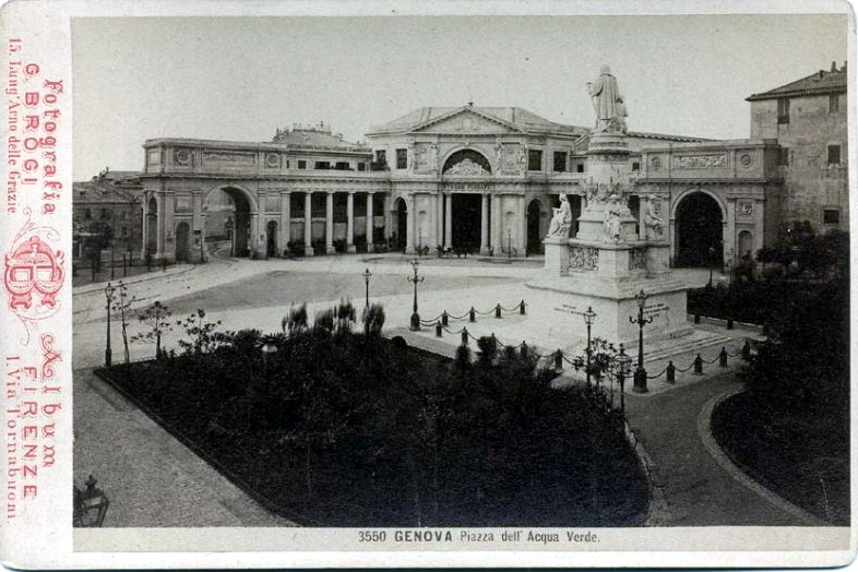 Giacomo Brogi (1822-1881), "Genova - Piazza dell'Acqua verde square". Catalogue # 3550.